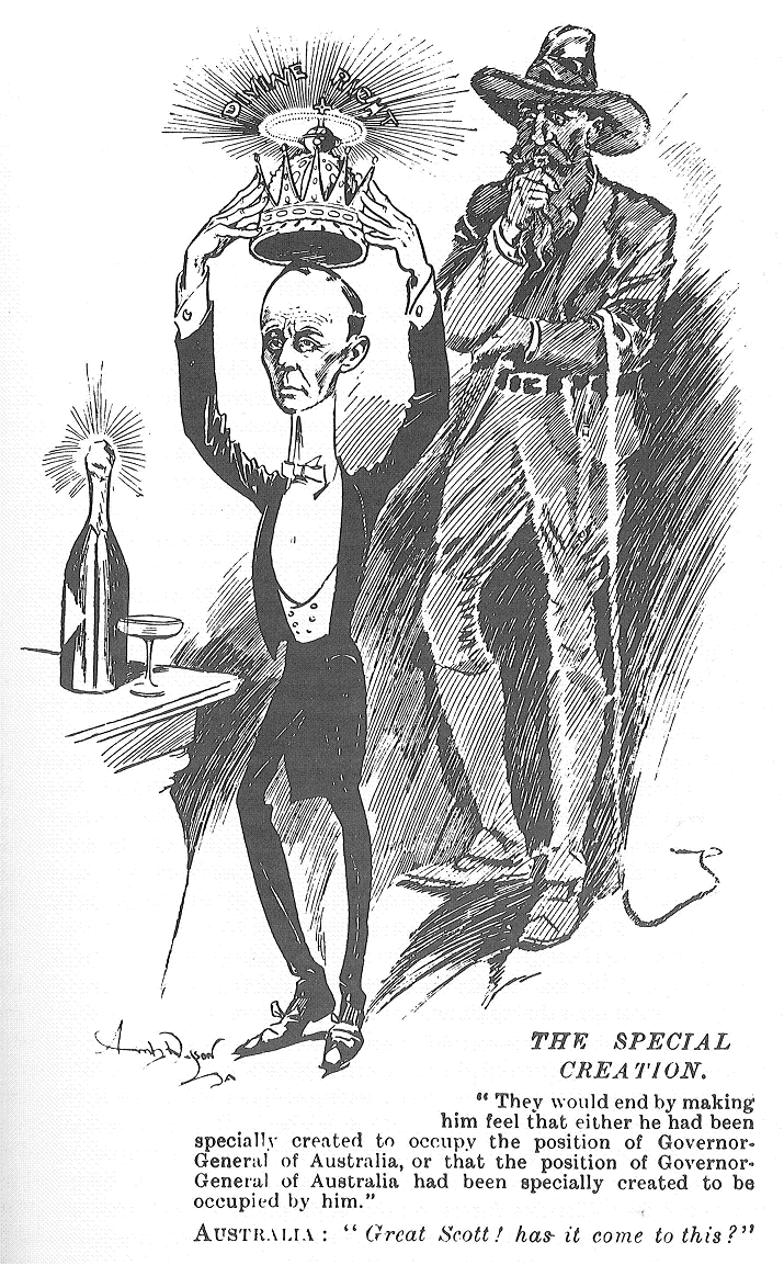 A cartoon parodying Hopetoun's attitude towards the new Governor-General position in 1901